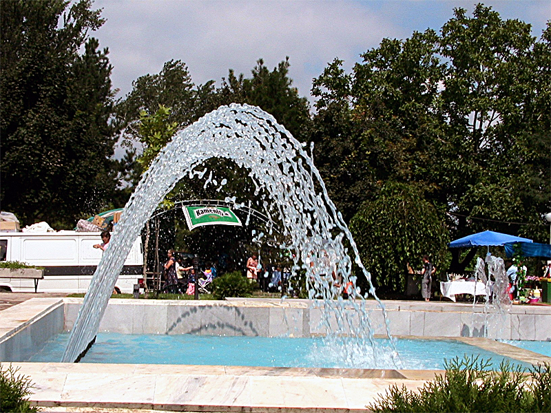 This is fountain in the central square of NIkopol in front of the municipal building. There are small cafe's nearby, and the Danube River is about 100 yards away.